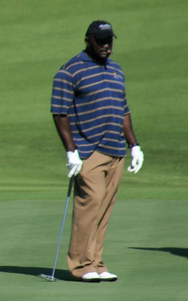 Lawrence Taylor on the golf course in 2007.